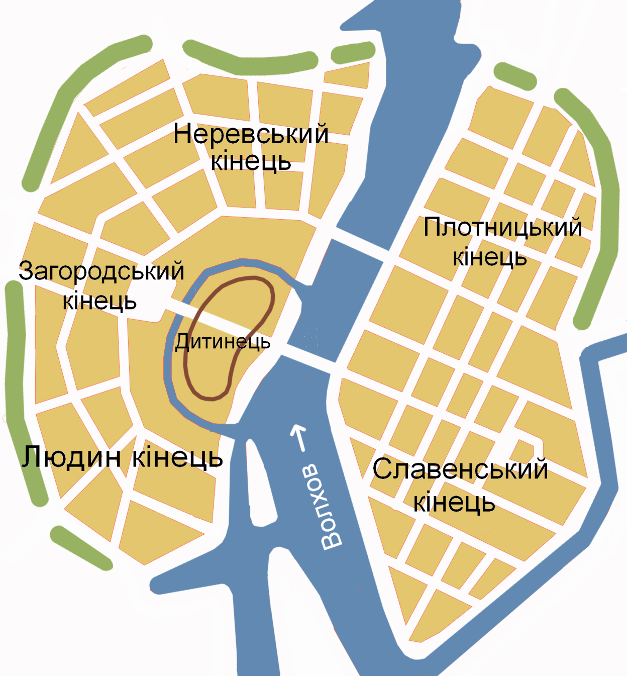 The Map of historical center of Veliky Novgorod, Russia